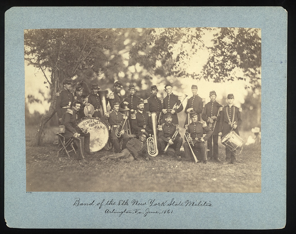 Title: "Elmira Cornet Band," Thirty-third Regiment, of the New York State Volunteers, July 1861 Abstract: Group portrait of 16 men and boys posed with musical instruments. Drum reads: "Elmira Cornet Band." Physical description: 1 photographic print on card mount : albumen. Notes: Gift; Col. Godwin Ordway; 1948.; Title and date from supplied by Library staff based on information in: Uncle Beebe, an American Civil War narrative / John Dowling. London : Athena Press, c2003, p. 31.; No. 4545.